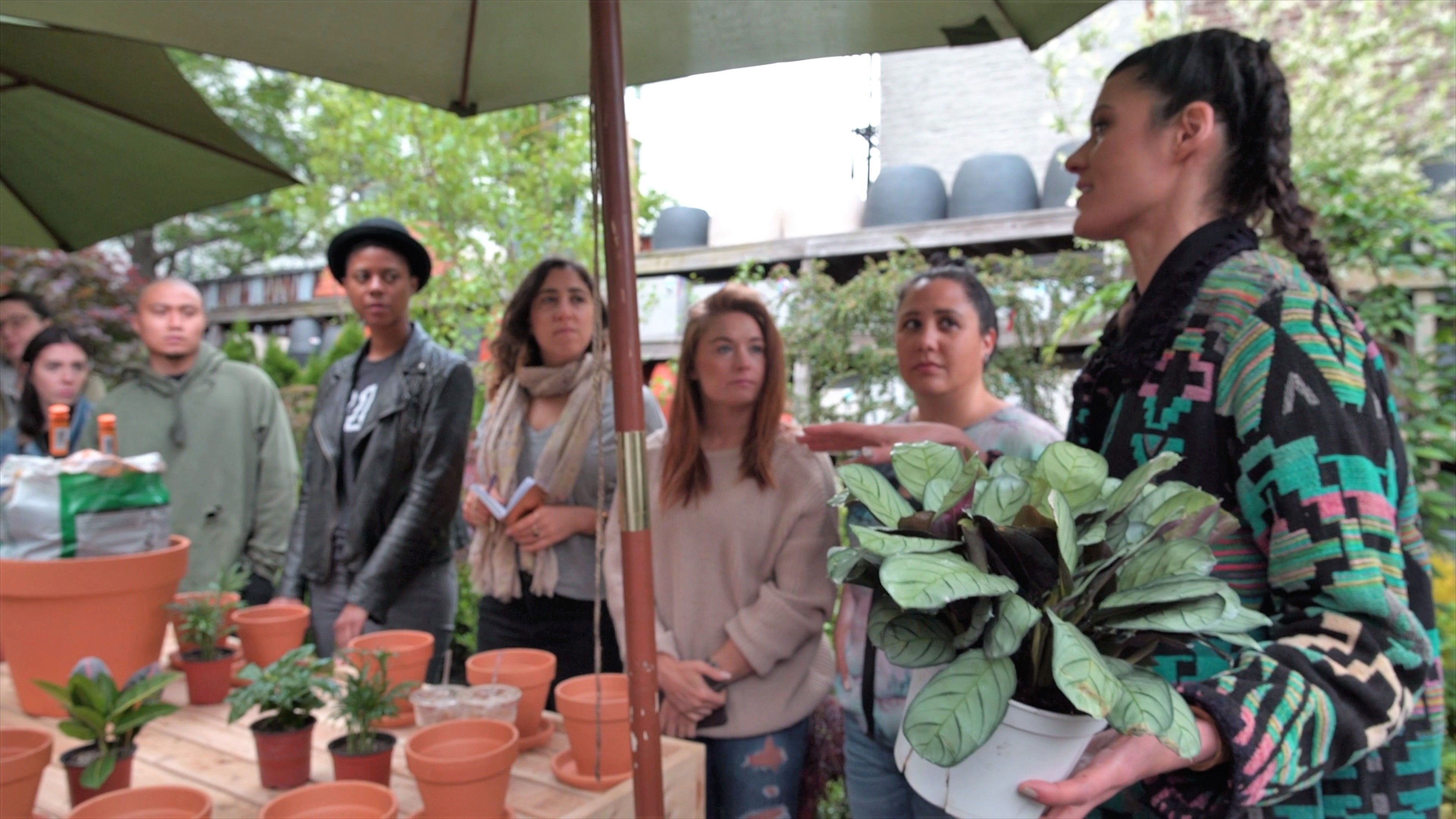 American environmentalist, model, and author Summer Rayne Oakes teaching gardening at a community garden in New York City, in 2018, as part of her Houseplant Masterclass. The Houseplant Masterclass is an online audio-visual course and experience to help you demystify plant care and learn how to have a relationship with your plants. More information here: kck.st/2G7dnbj